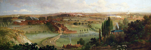 Etrurua From Basford Bank by Henry Lark Pratt (1805-1873). Shelton Church on far right, Etruria Hall on the left.